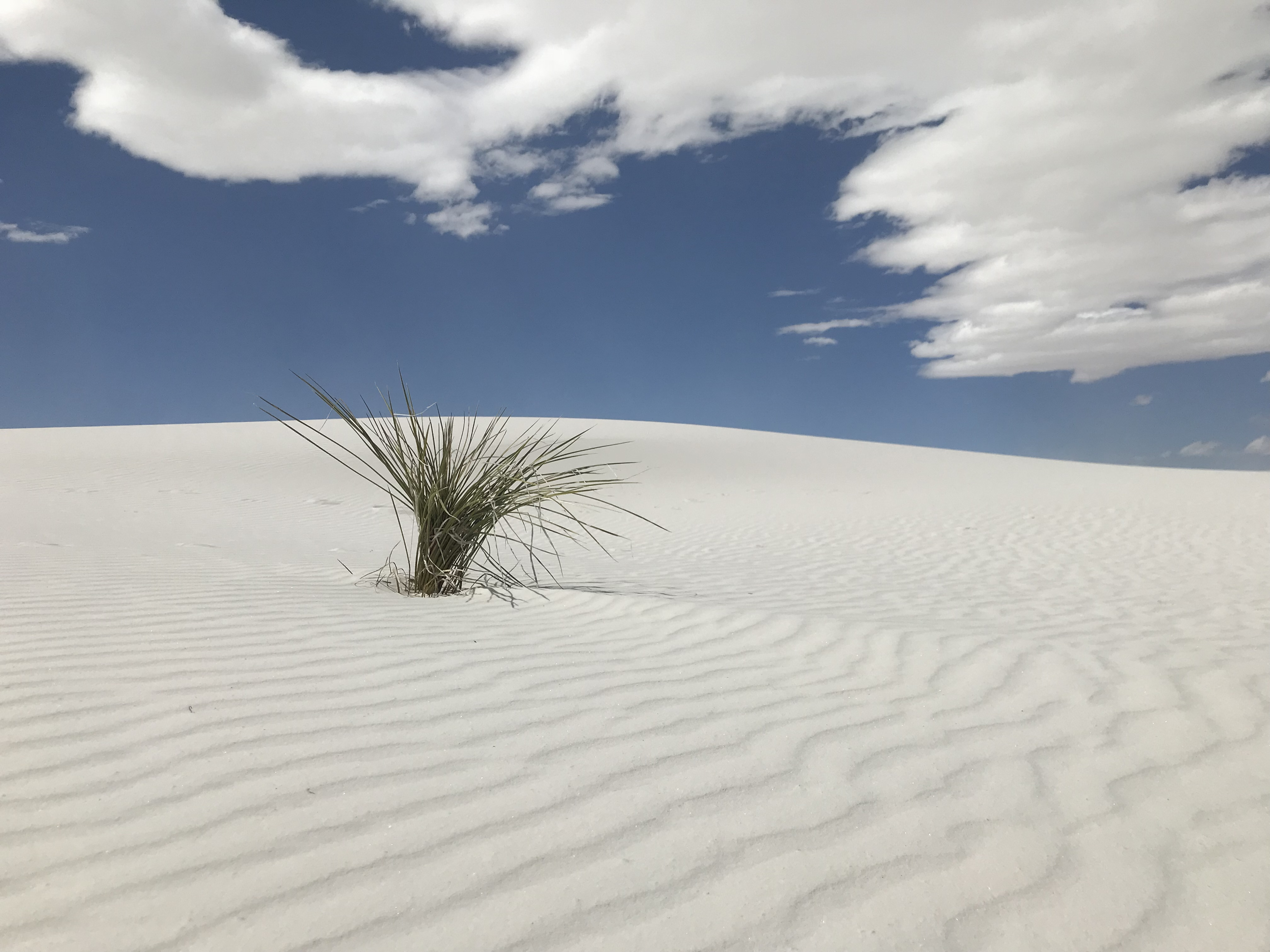 A plant in White Sands National Monument. This beautiful white dune field occupies 3 square miles in south central New Mexico, 98 miles from the US-Mexico border.